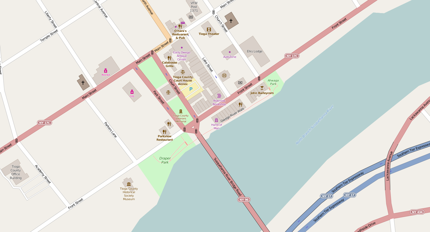 This map of Owego was created from OpenStreetMap project data, collected by the community. This map may be incomplete, and may contain errors. Don't rely solely on it for navigation.